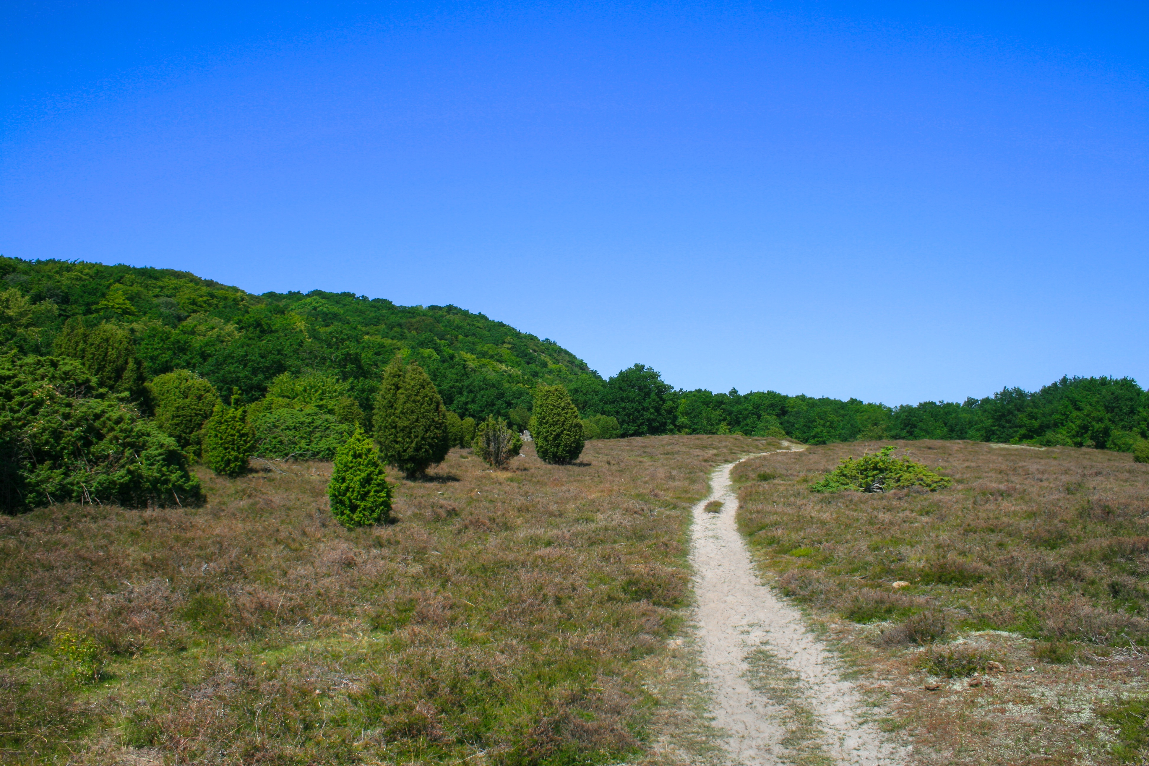 Heath, in the south east of Stenshuvud national park